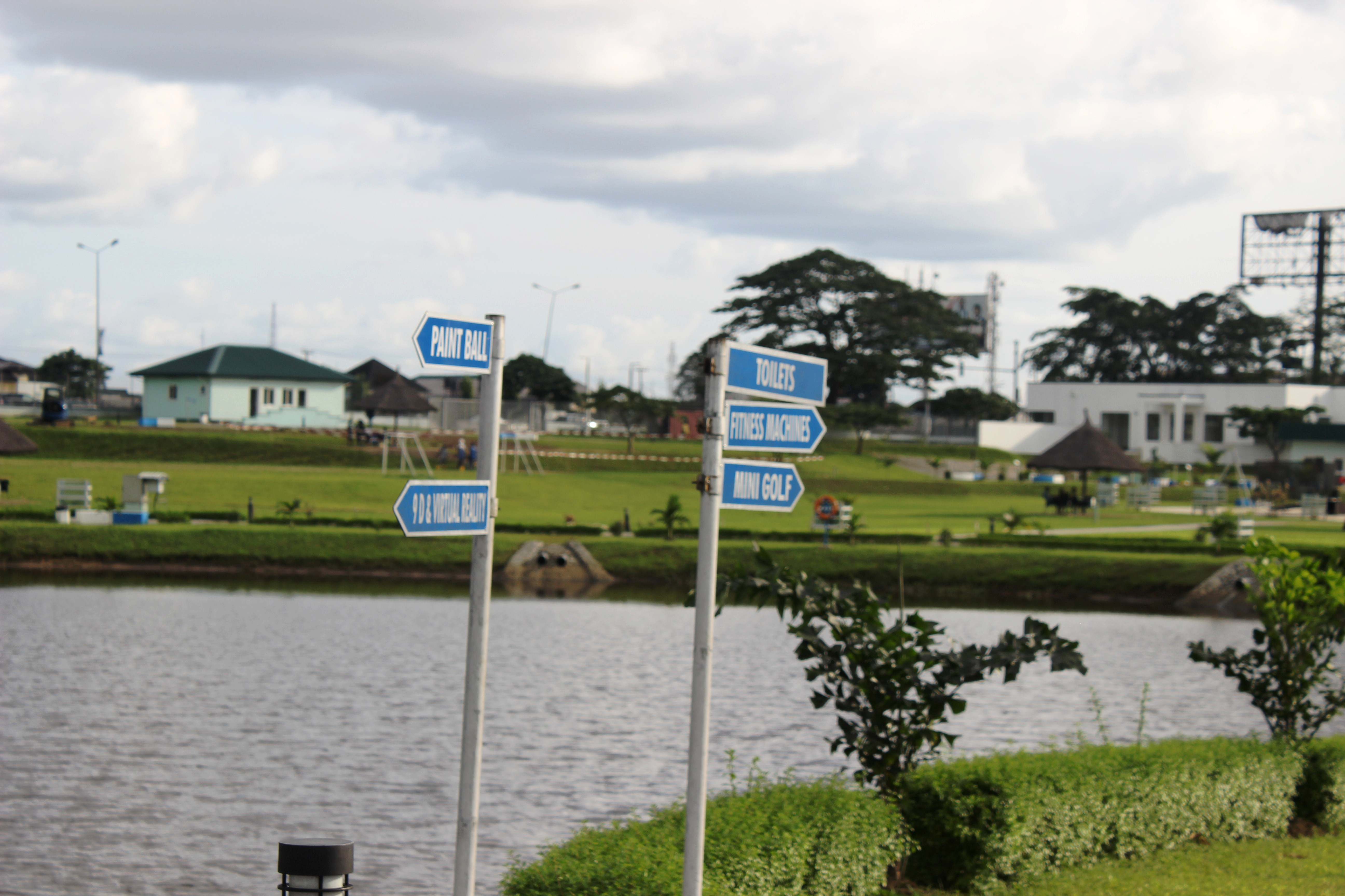 Port Harcourt Pleasure Park - A sectional view across the artificial lake